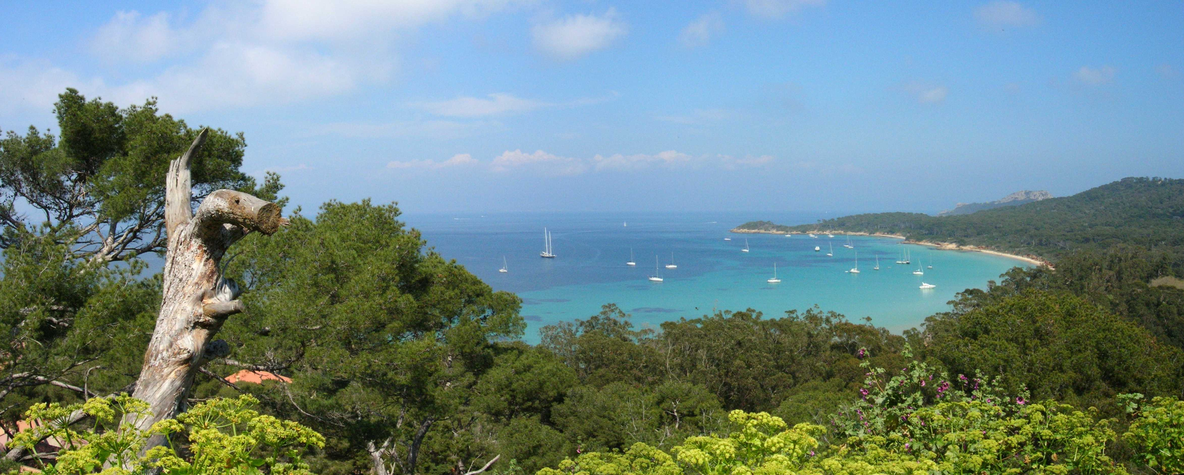 Porquerolles, panoramaview stiched with Autostich